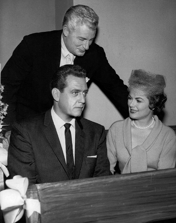 Photo of William Hopper (Paul Drake-standing), Raymond Burr (Perry Mason) and Barbara Hale (Della Street), from the television program Perry Mason. The episode is "The Case of the Missing Melody".